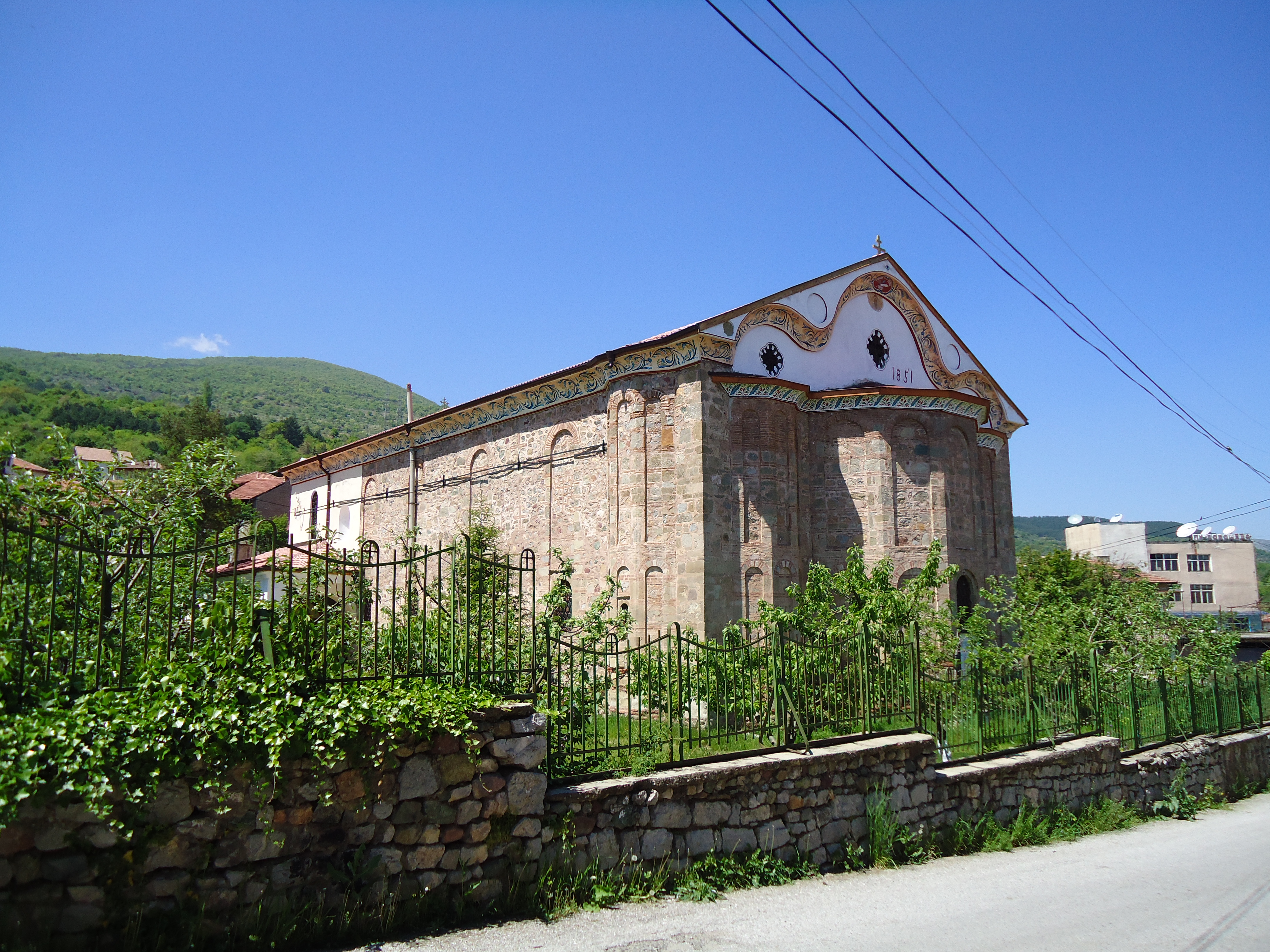 Church of the Holy Mother of God, Boboshevo